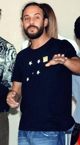 Singer Gabriel, o Pensador